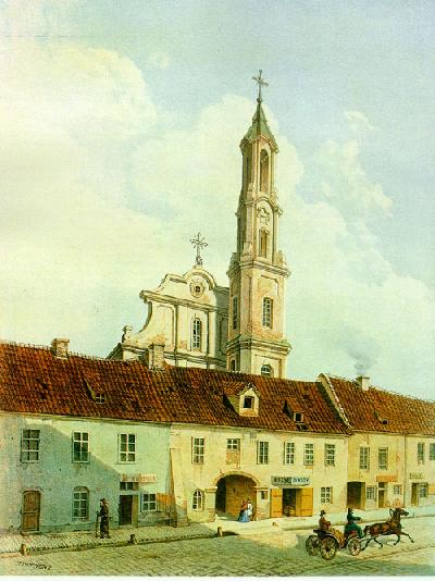 Orthodox Church of St. Nikolai before reconstruction. 1863. Lithograph. From P. Batiushkov's Album